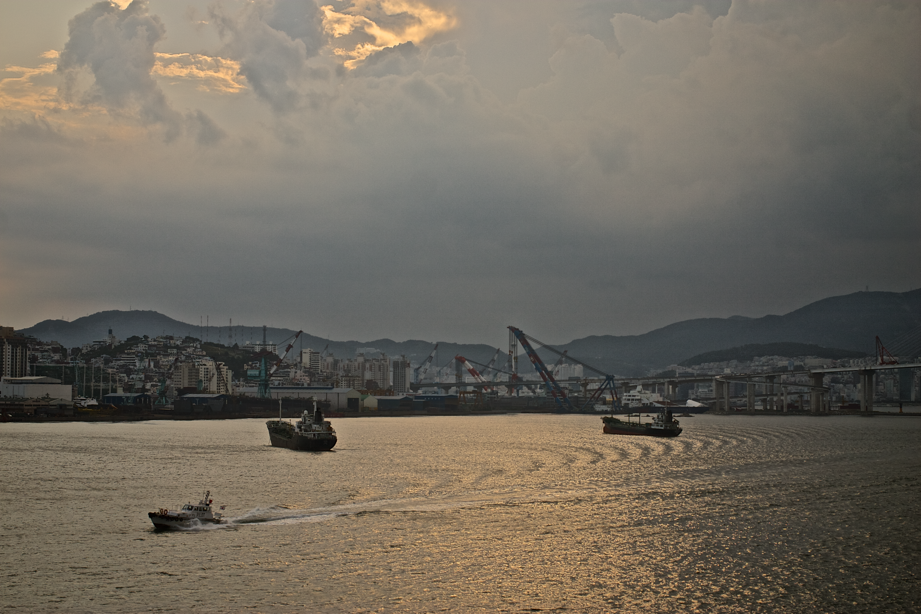 Ports of Busan as seen from a ferry. Busan, South Korea. Photograph from Flickr; author ecodallaluna; license of cc-by-sa-2.0.